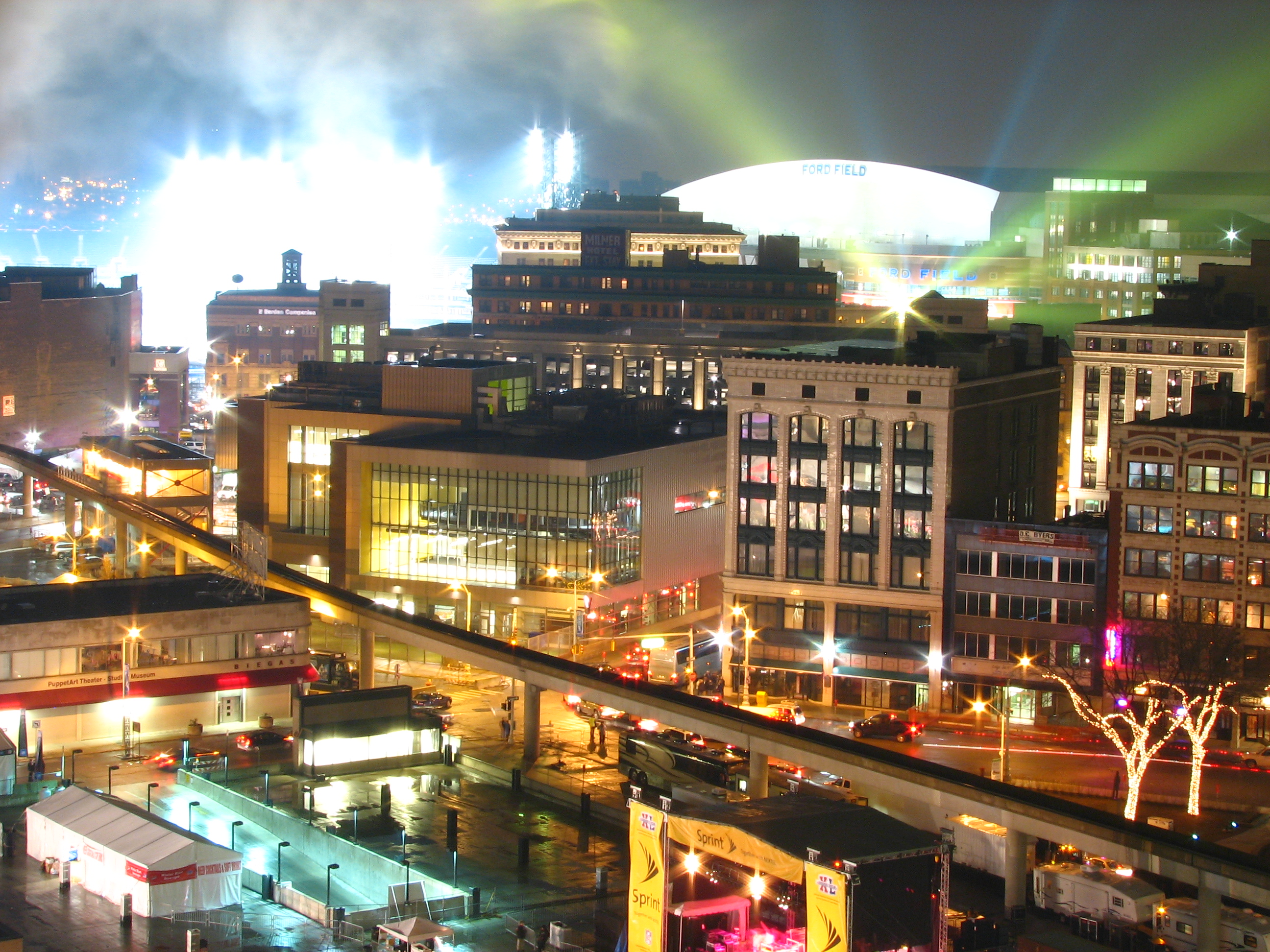 Looking at Ford Field the night of Super Bowl XL